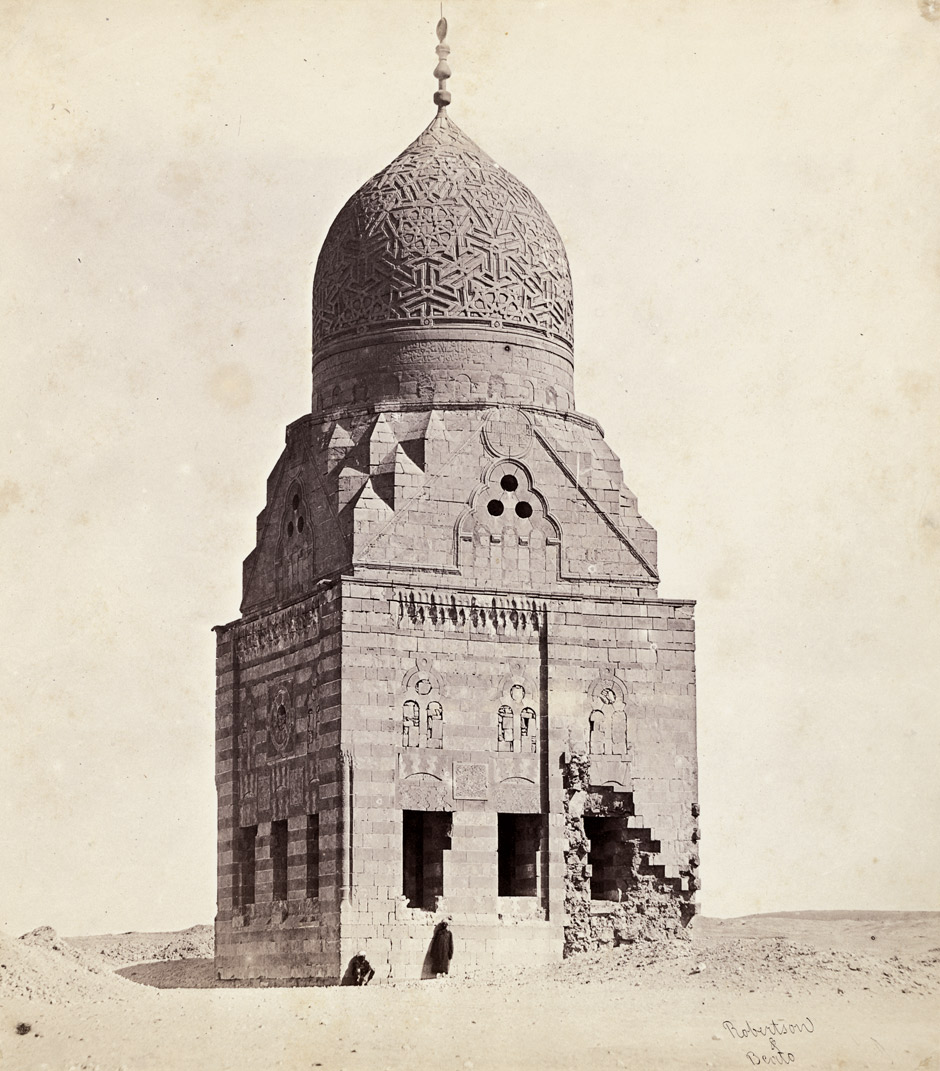 Tomb of Sultan az-Zahir Qansuh (1498-1500). Circa 1858. Salt print from a wet collodion negative. 29,7 x 26,8 cm. Signed Robertson & Beato in the negative lower right, window-mounted in modern mount.